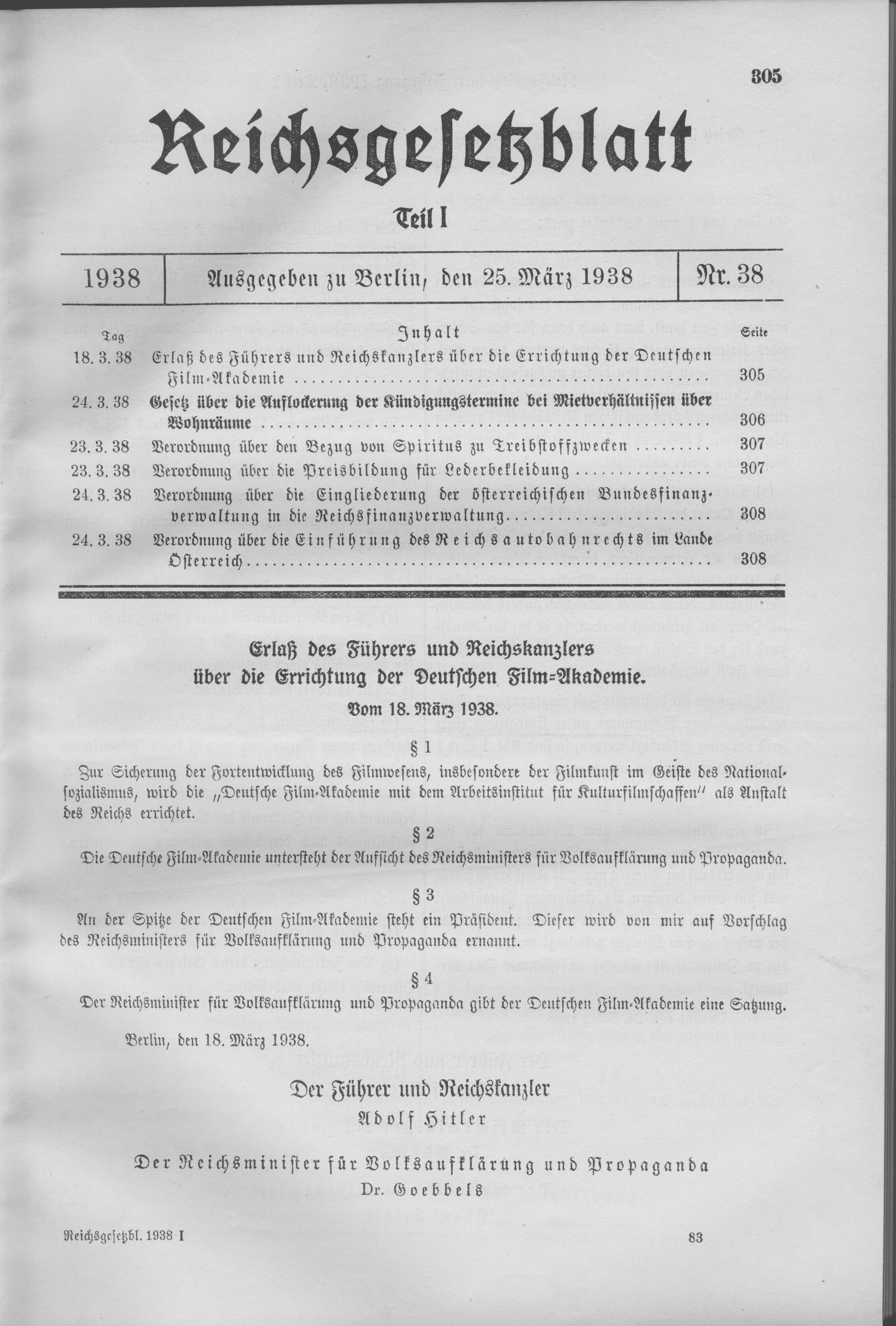 Scan from the Imperial Law Gazette of Germany, 1938, part 1